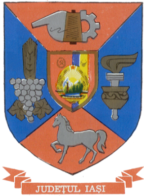 Communist coat of arms of Iași County, Socialist Republic of Romania.